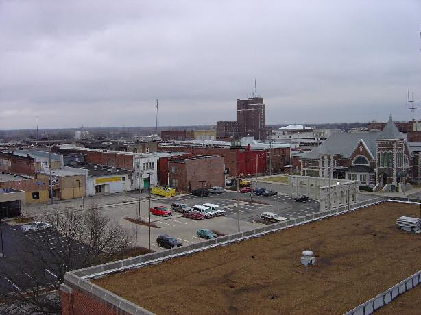 Sky line of Pittsburg Micro. area